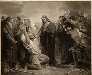 This is a Mezzotint made and published by John Young of a painting done by Henry James Richter